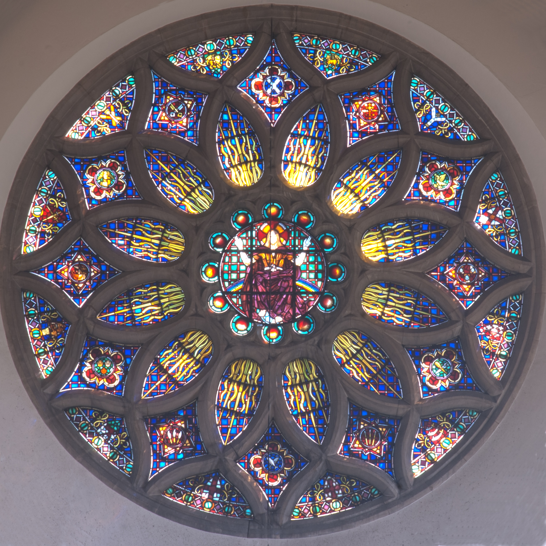 All Saints' Hockerill Church, Bishop's Stortford. Rose Window by Hugh Easton. From centre, outwards: Christ in Majest, rays, emblems of Saints, emblems of associated dioceses.